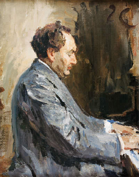 Portrait of the pianist Leopold Godowsky